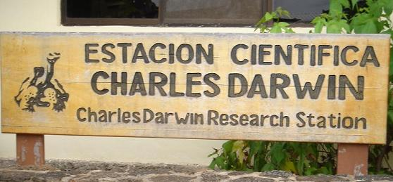 Charles Darwin Station Galapagos Letrero